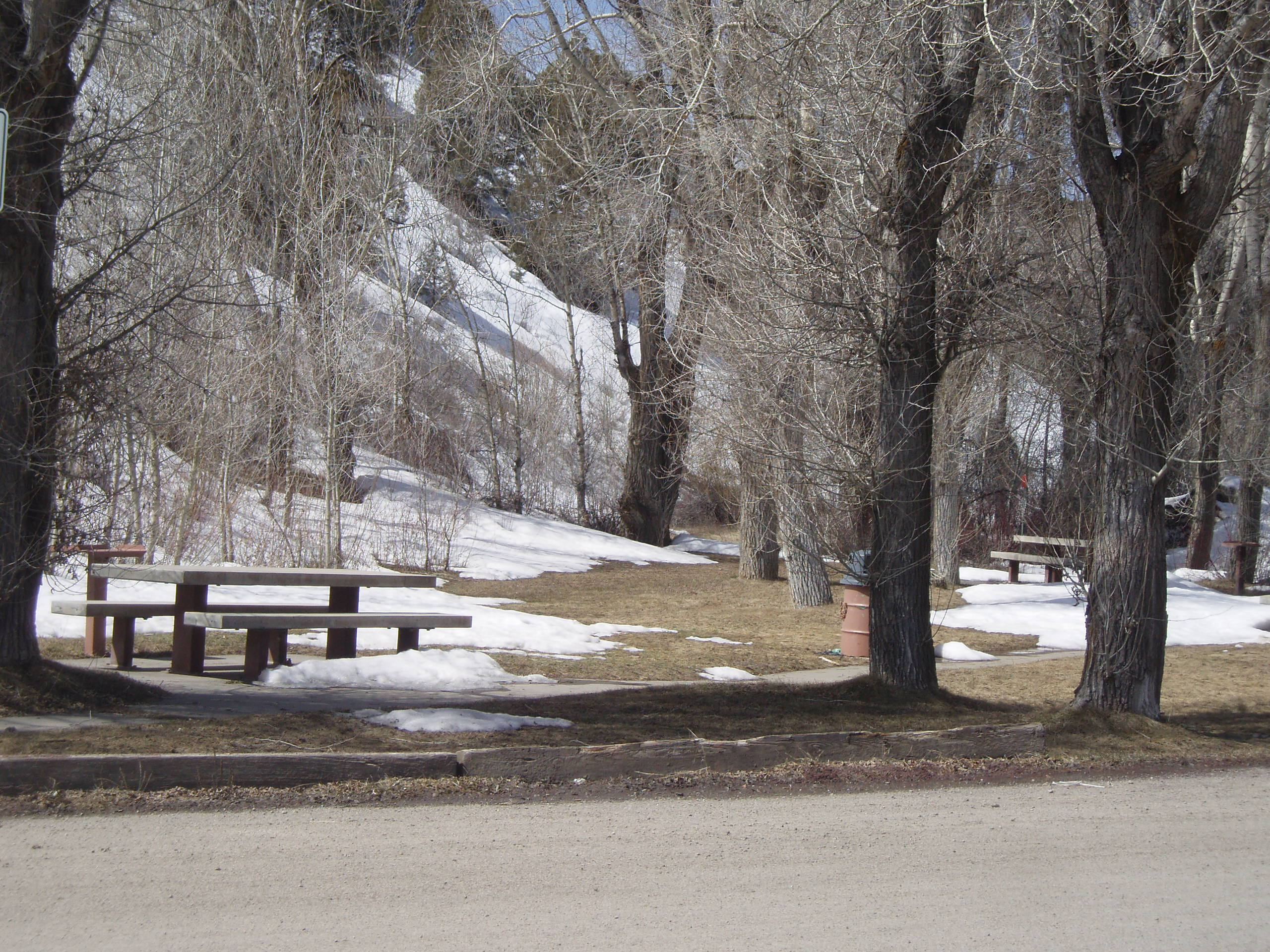 West-facing view of the ghost town of Tucker, Utah, now a rest stop.